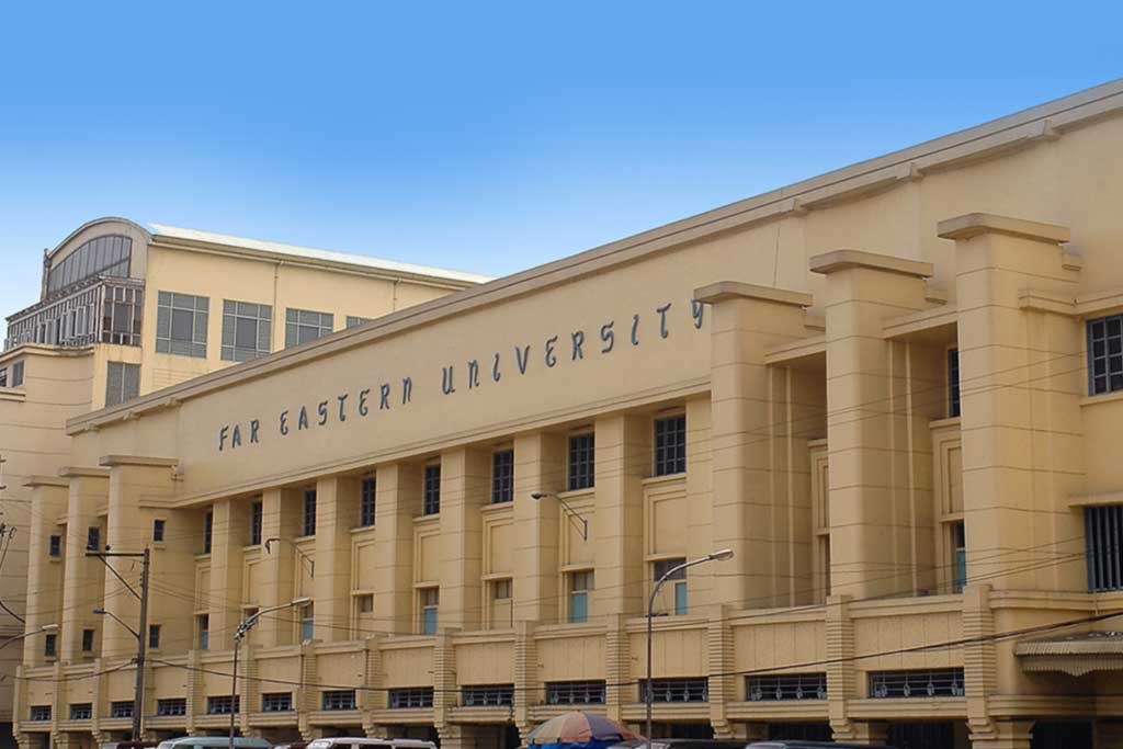 NR Hall